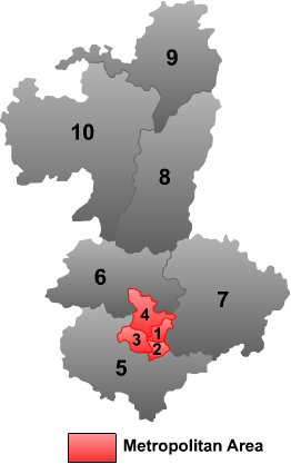 Map of Liuzhou in Guangxi AR